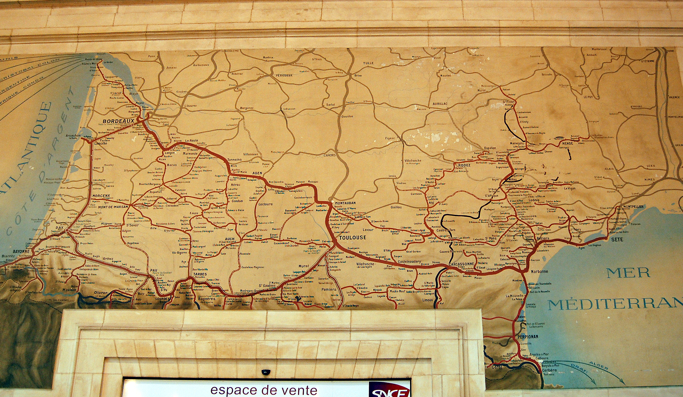 Map of the early railways company "Chemin de Fer du Midi", France